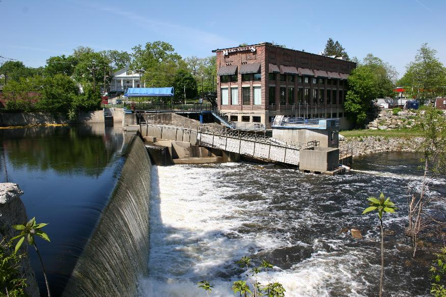 Dam on the Nashua River, about 200m from Main St., downtown Nashua, N.H., May 2006. Flooding two weeks earlier crested about at the point where the red brick meets the limestone of the restaurant across from my location. Photo by David Braverman. --Inner Drive Tech 17:03, 4 August 2006 (UTC) Category:Dams in New Hampshire